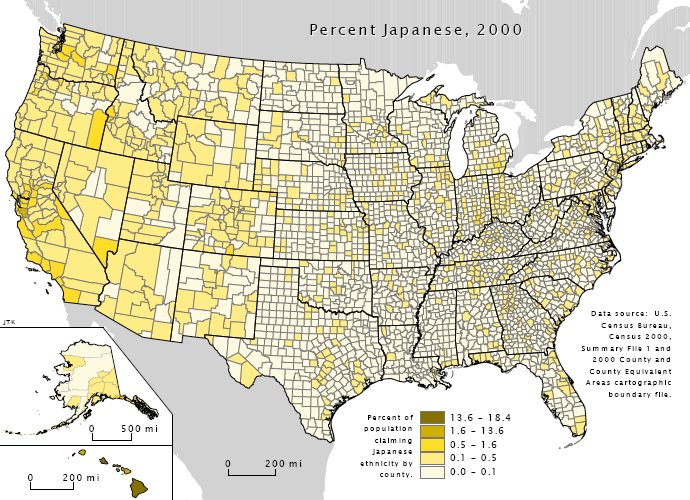 Diagram indicating Japanese American settlement in the United States. Image as based on the census 2000 by the U.S. Census Bureau. Badagnani (talk) 07:38, 23 May 2009 (UTC)